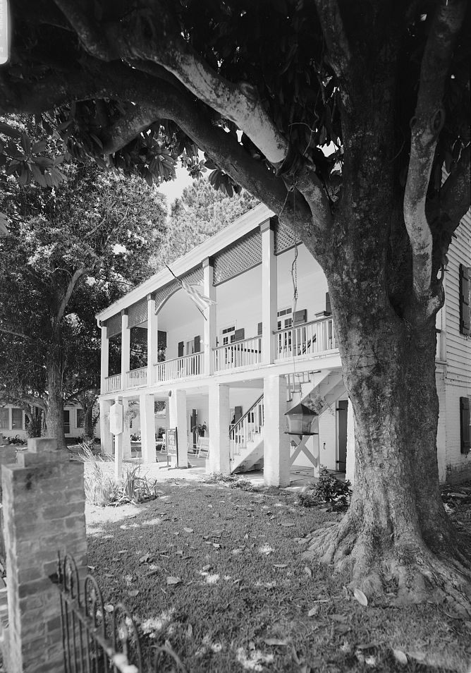 Kate Chopin House, State Highway 495, Cloutierville, Natchitoches Parish, Louisiana. Demolished in 2008